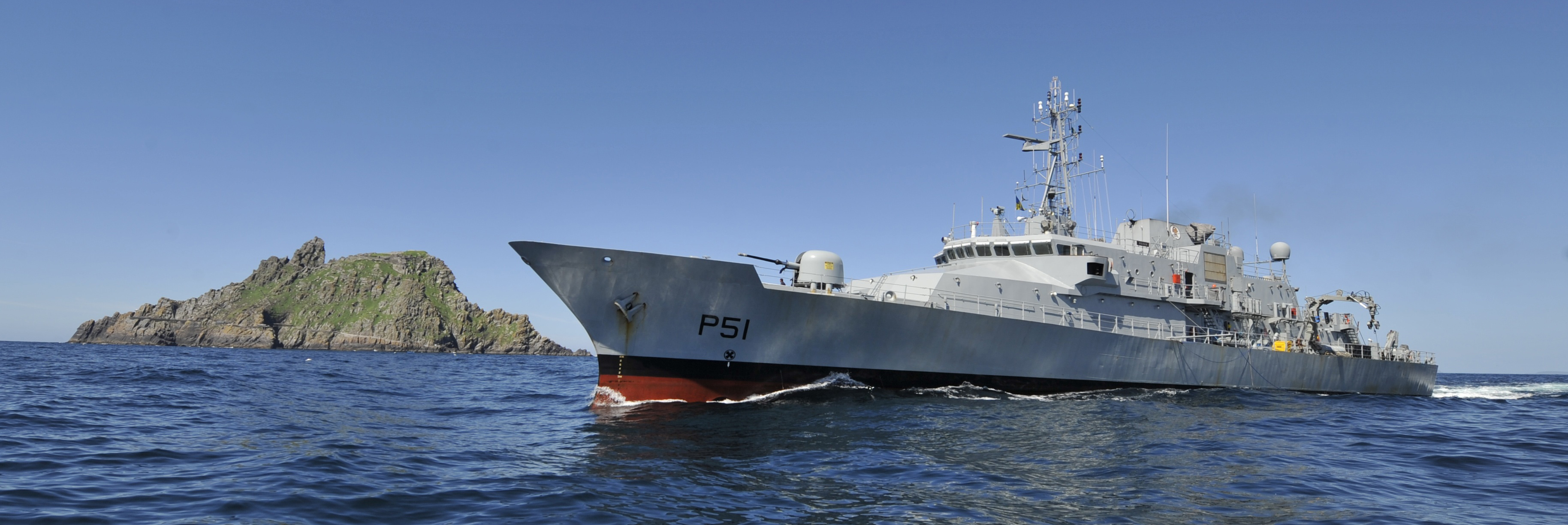 LÉ Róisín (P51) on patrol in August 2013